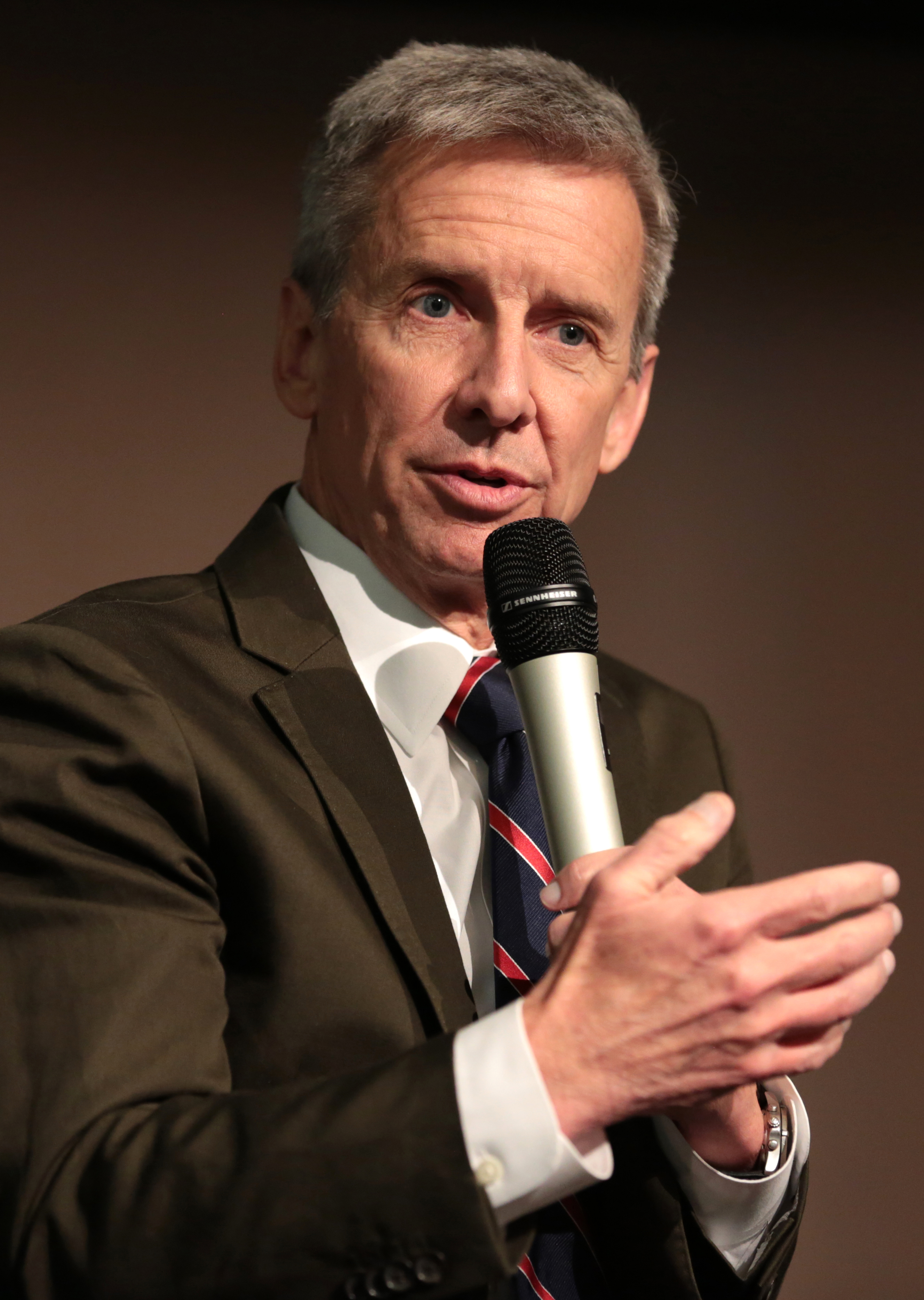 Paul K. Charlton speaking at an event in Phoenix, Arizona